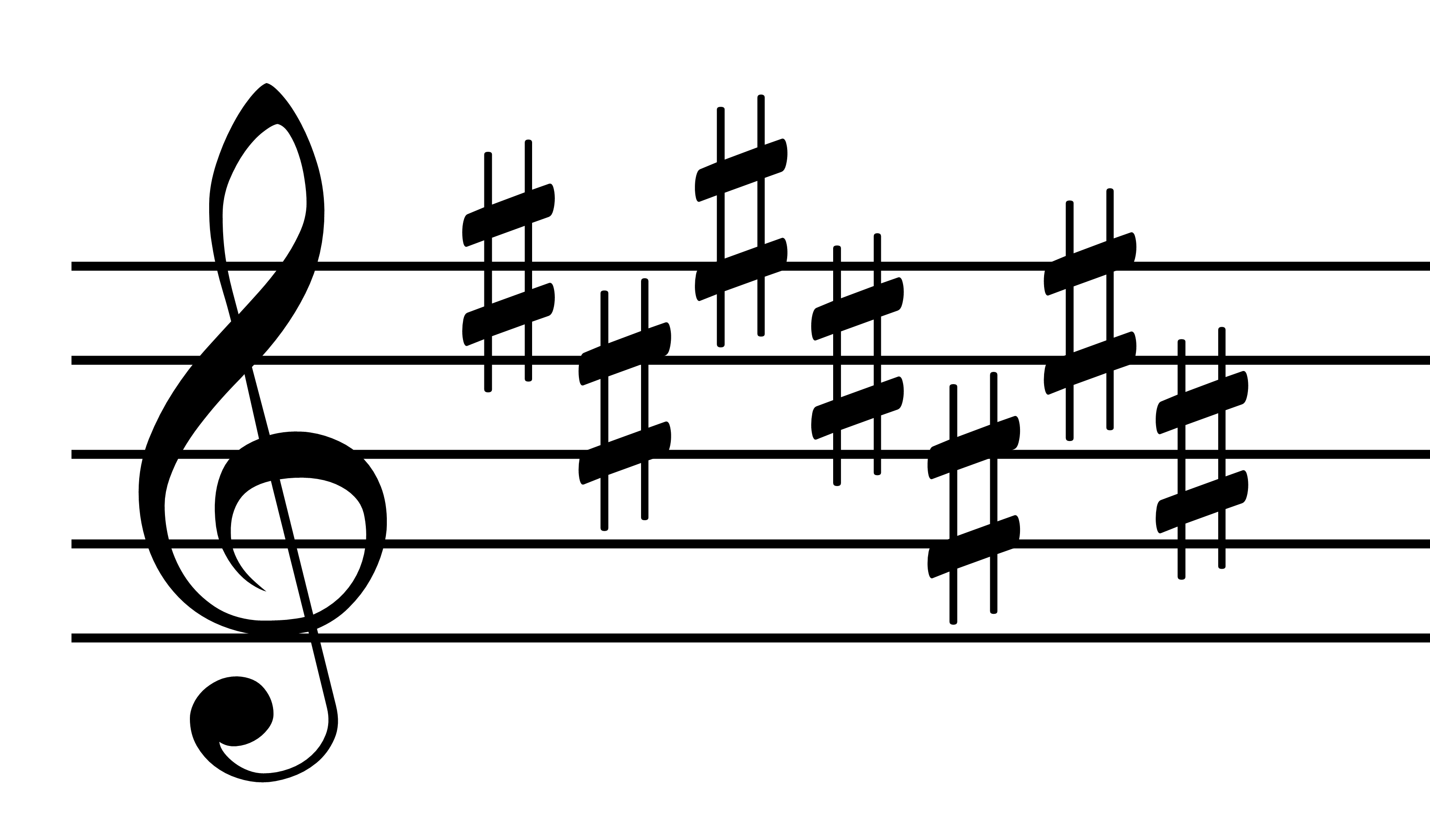 C-sharp major key signature. The location of sharps in the treble clef.